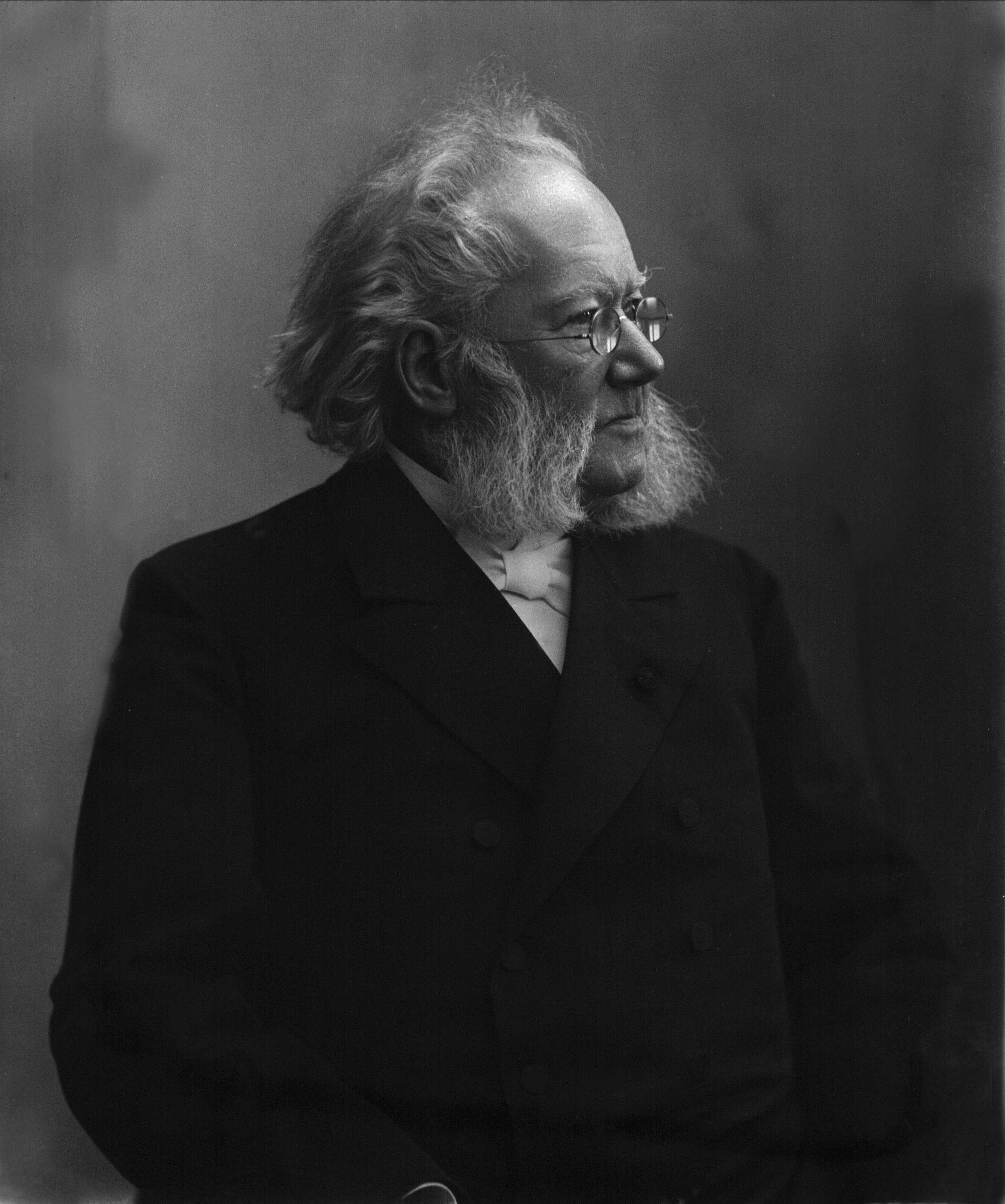 Henrik Ibsen by Creator:Gustav Borgen, from the collection of the Norsk folkemuseum